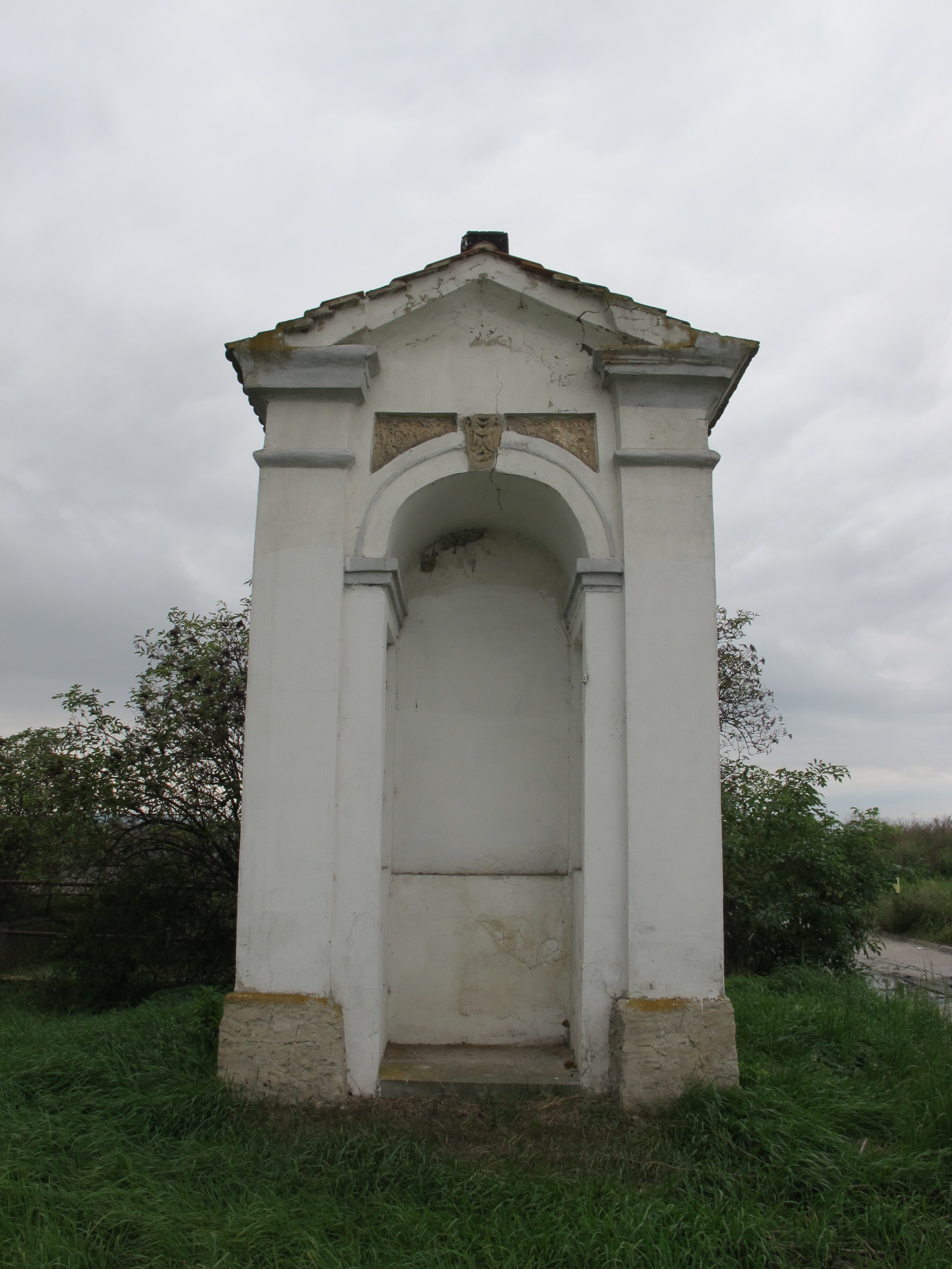 The Chappel in fields near Líšťany, Czech Republic